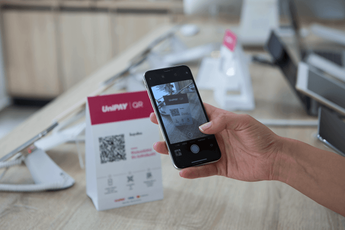 user is paying using qr code by unipay wallet app